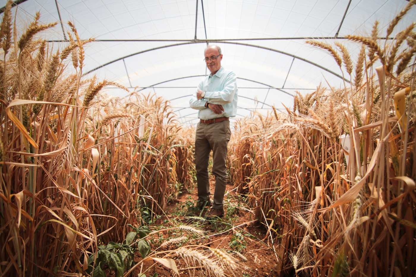 Ali Shehadeh, a scientist at ICARDA, is shown in one of the greenhouses at the International Center for Agricultural Research in the Dry Areas, or ICARDA, site in Lebanon's Beqaa Valley